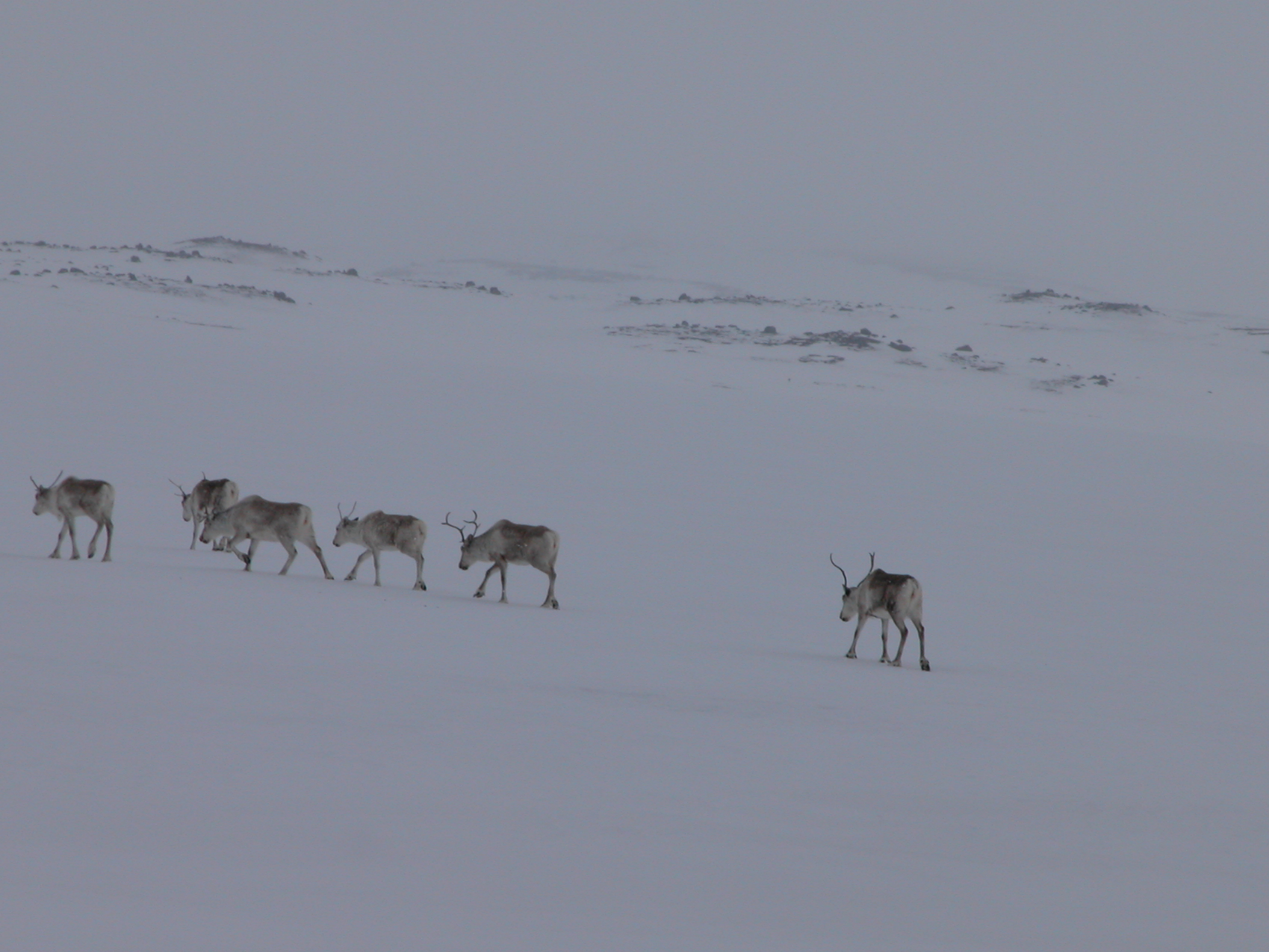 Reindeer between Egilstaðir and Myvatn - Iceland